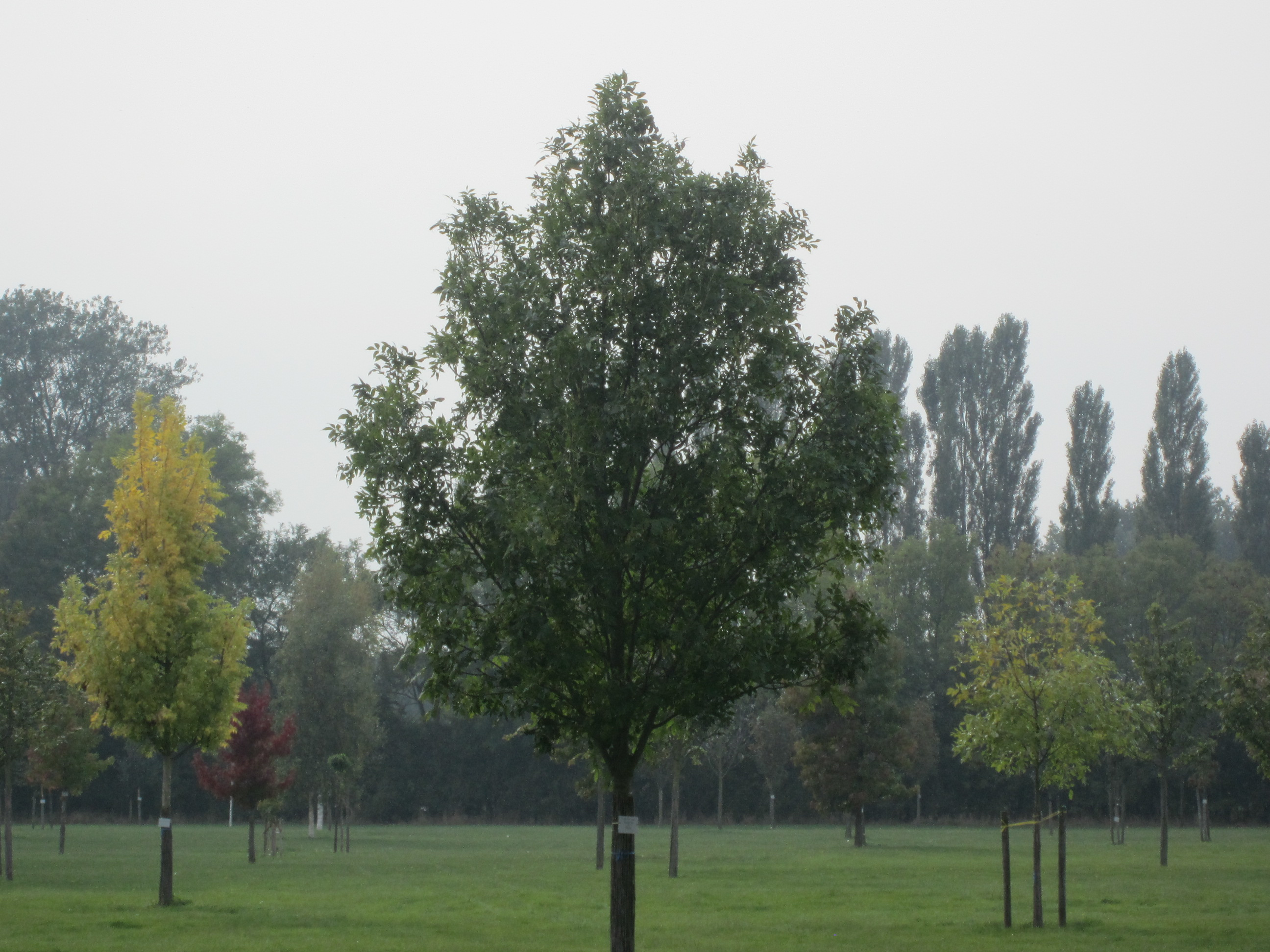 Arboretum behind the "Erbhof" Thedinghausen (Landkreis Verden, Lower Saxony)